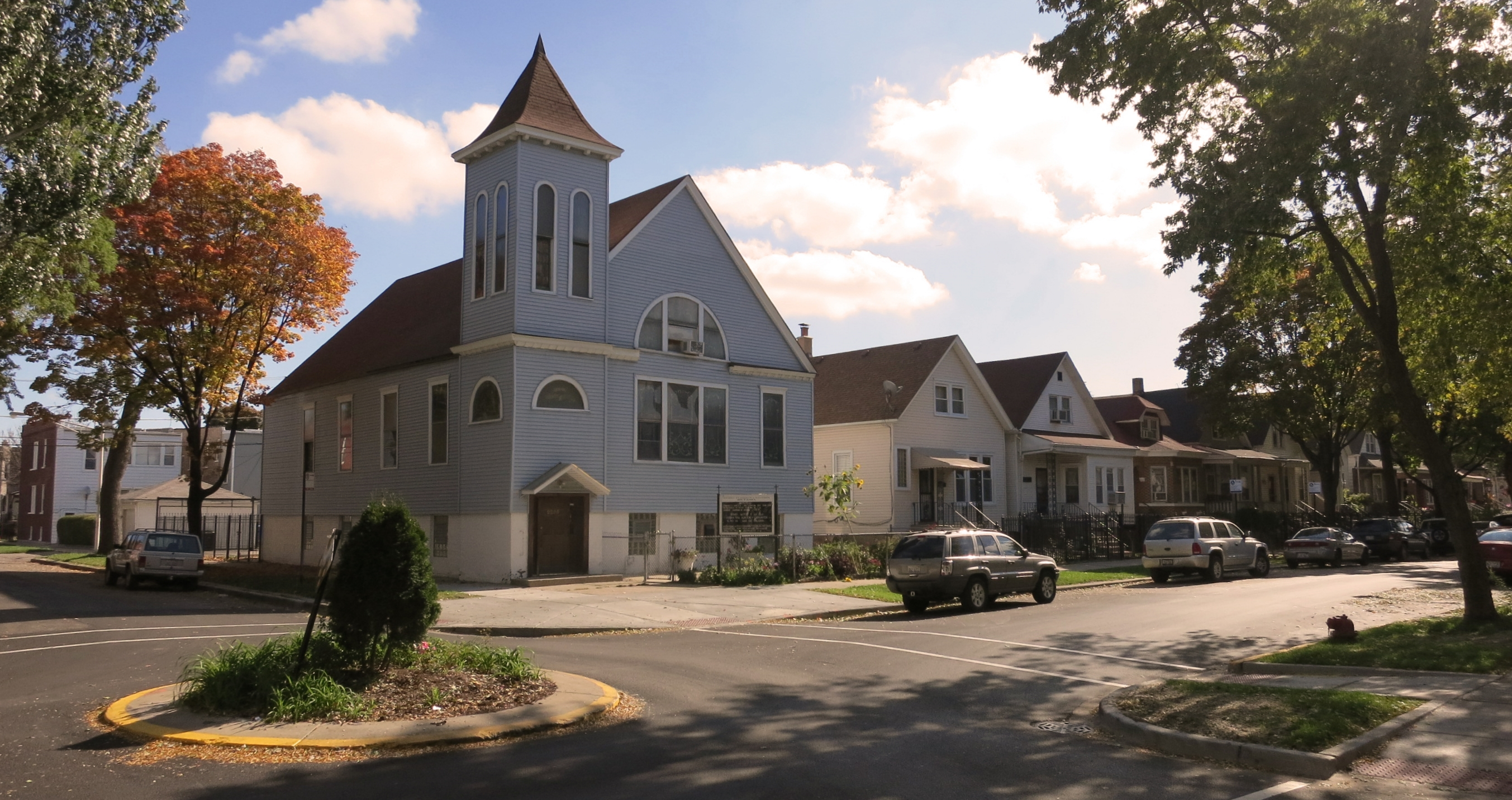 The church located at 2255 N Keeler Ave, today known as Iglesia Evangelica Bautista Betania, was formerly St. Paul Congregational Church. St. Paul has the distinction of being the location where Walt Disney (who was born in Hermosa) was baptized.